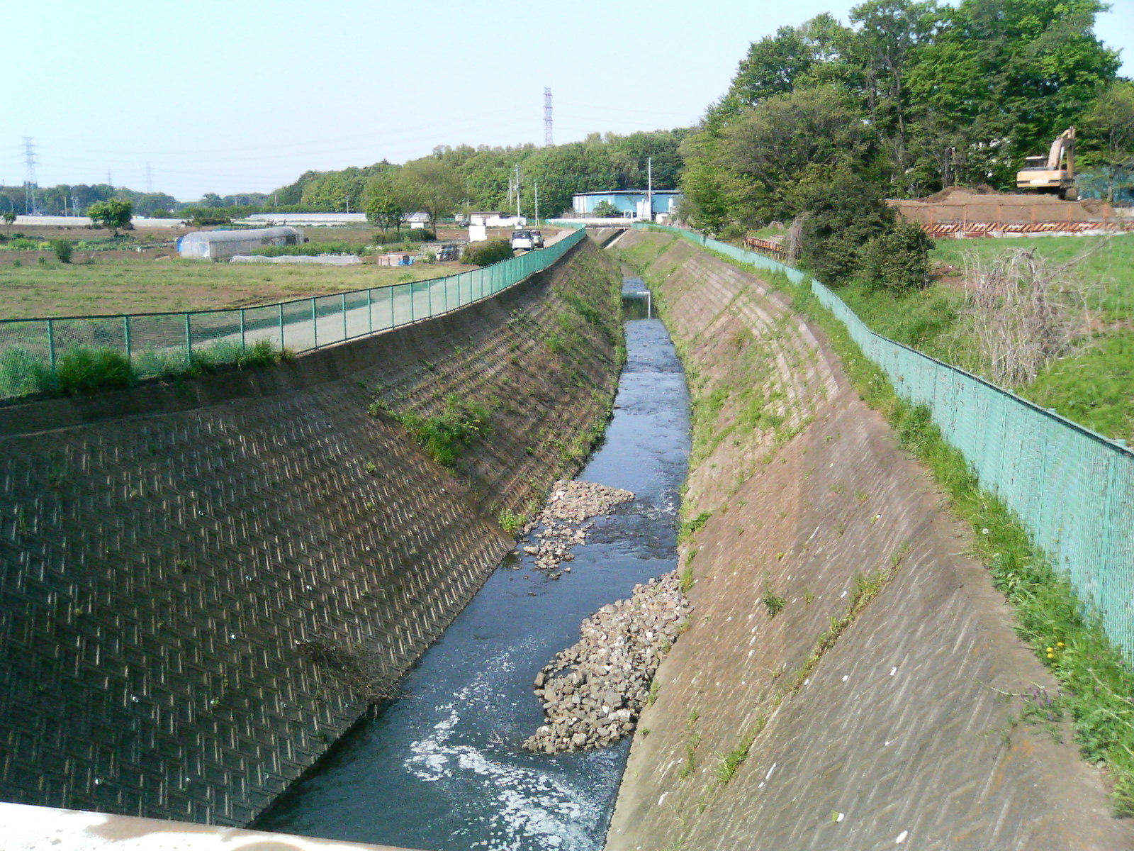 Suna-gawa-bori river - seeing lower reaches, from Tamon'in dōri Ave. , in Tokorozawa, Saitama, Japan.